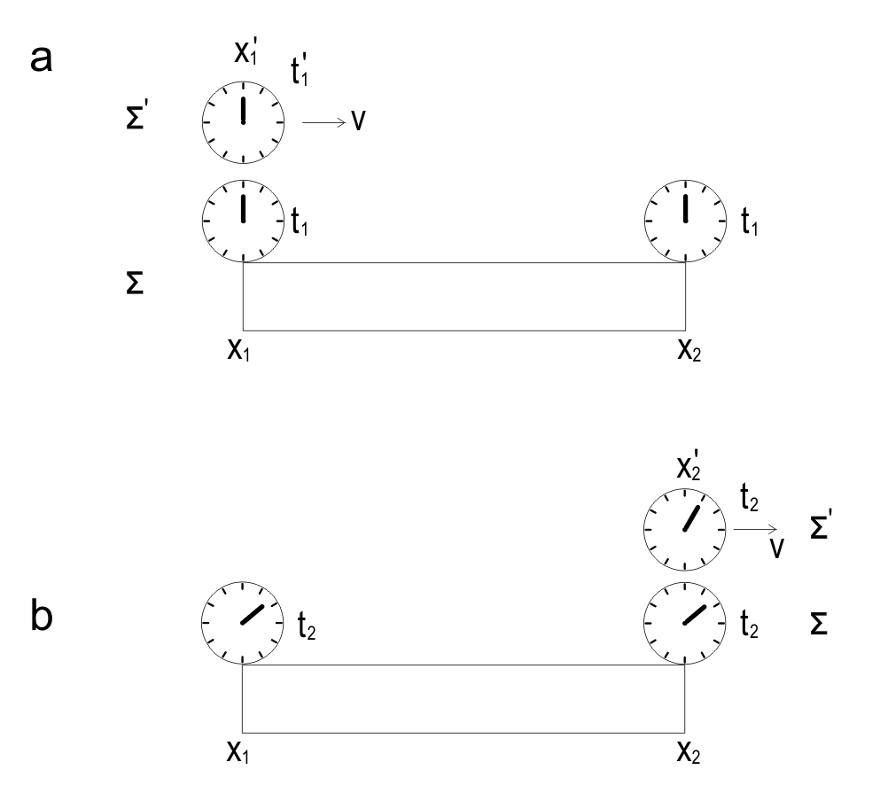 Time dilation measurement diagram 1